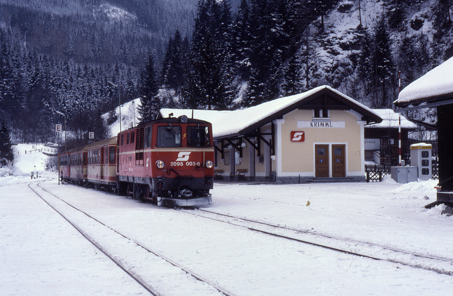 In wintery conditions at the terminus of the 52km long Pinzgauer Lokalbahn (formerly Pinzgaubahn or Krimmler Bahn) back in 1991 when the line was still operated by the Austrian Federal Railways (ÖBB). Seen here is 760mm gauge no. 2095.003 on train 5085, 08:38 Krimml to Zell am See on 13 February 1991.